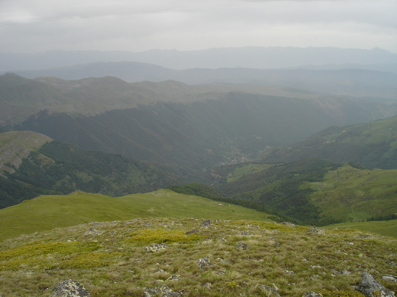 Suva (Dry) Mountain on Karadzica massif